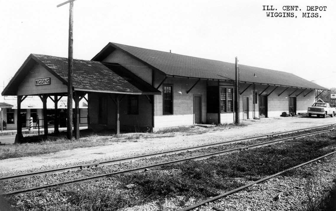 Collection: Railroad Depot Postcard Collection Call number: PI/1987.0009 System ID: 77455 Link to the catalog Illinois Central Depot, Wiggins, Miss. Please see our profile page for information on ordering. Scanned as tiff in 2008/11/13 by MDAH. Credit: Courtesy of the Mississippi Department of Archives and History